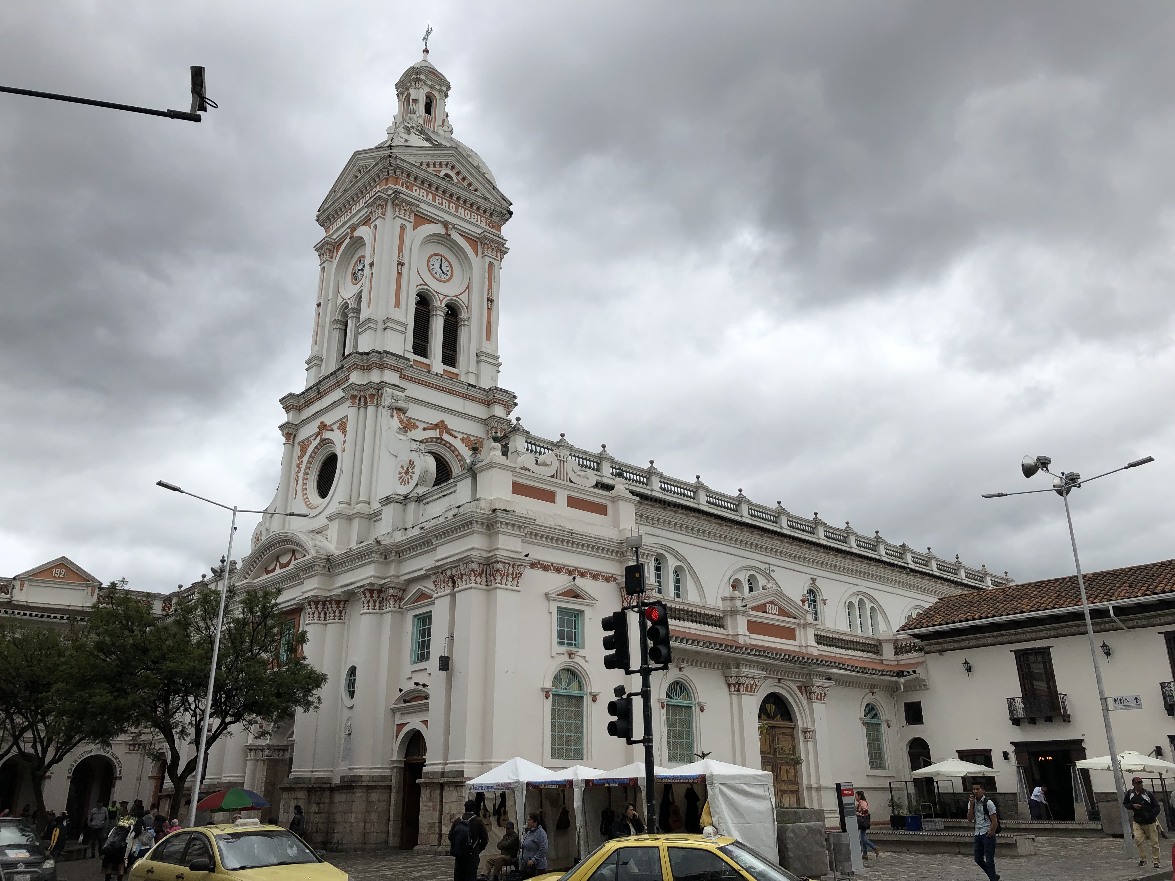 This is one of the most antique churches in Cuenca called San Francisco